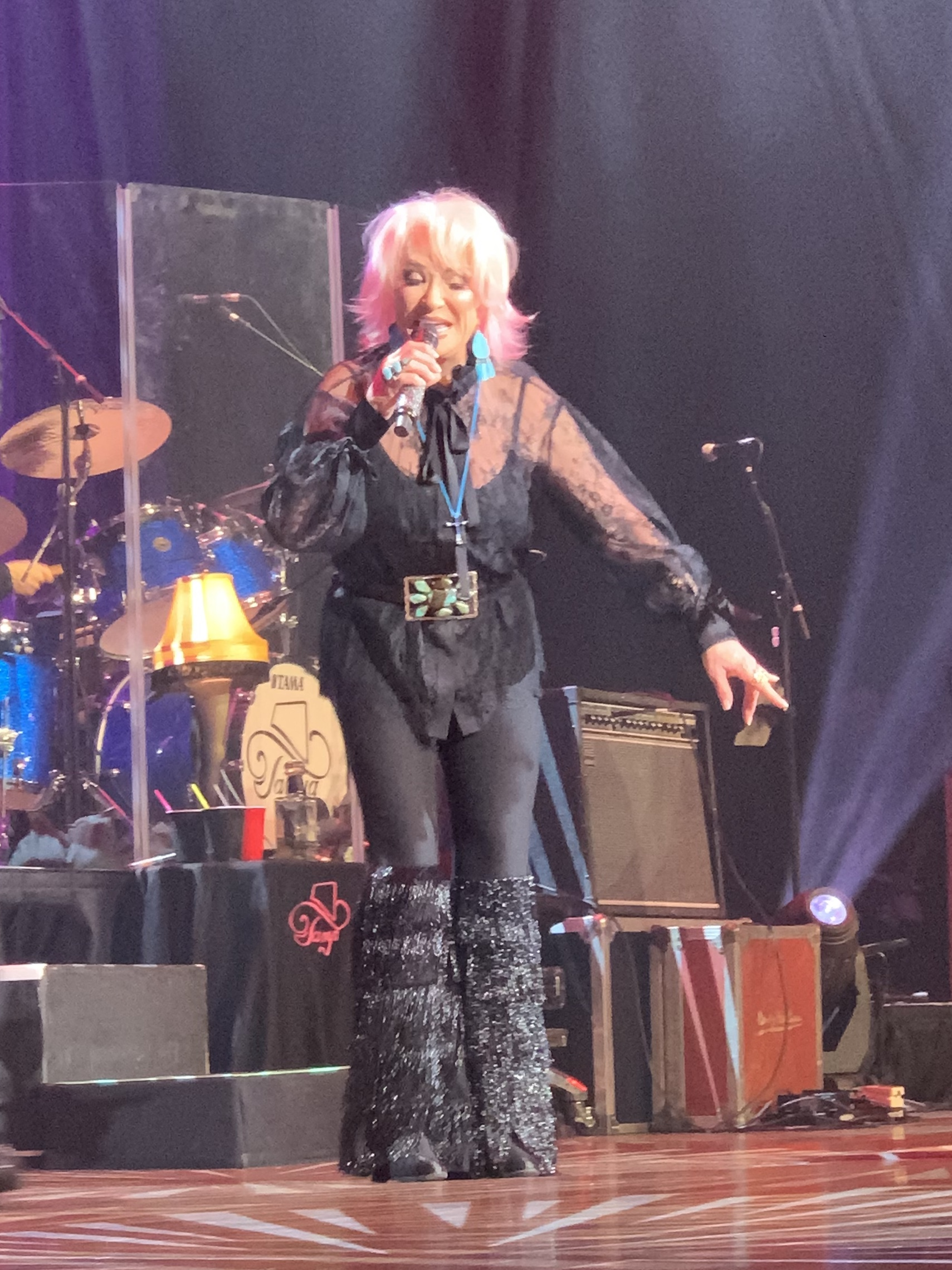 Tanya Tucker performing at Ryman Auditorium in Nashville, Tennessee, on January 12, 2020.